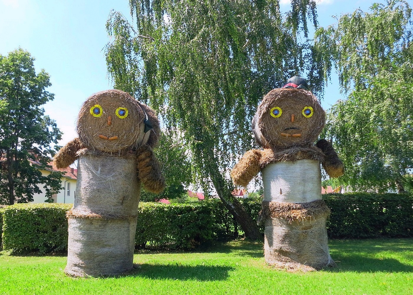 Straw statues in agricultural district of Croatia, Velika village